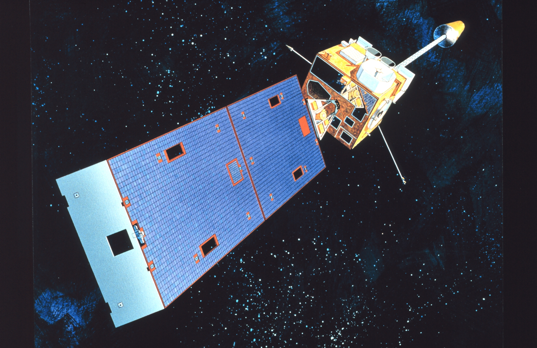 Graphic of GOES-I-M, the present generation of GOES-NEXT satellites.